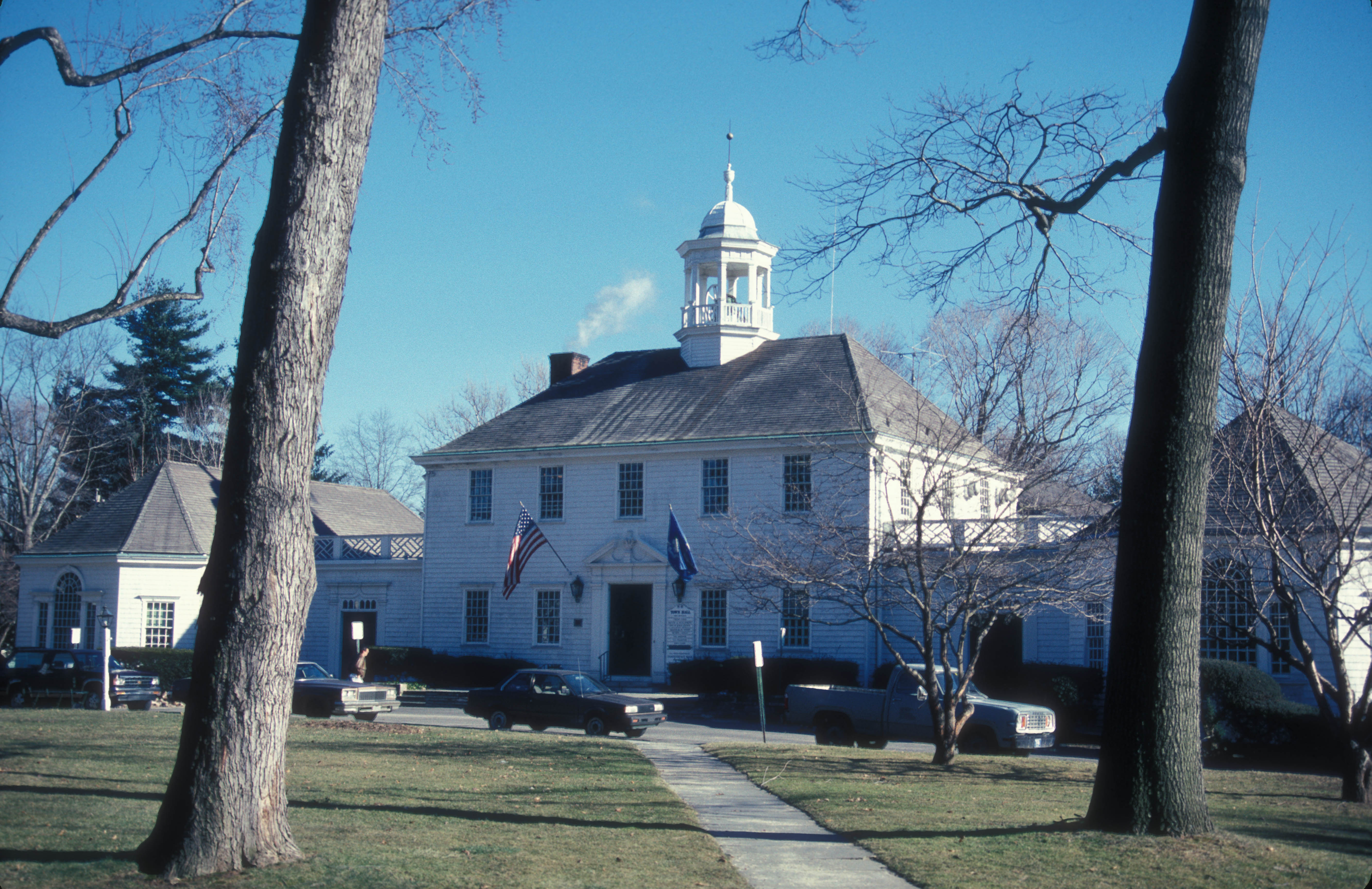 3RD BUILDING TO EXIST ON THIS SITE BUILT IN 1794 WITH EXTENSIVE REMODELING IN THE 19TH C. BOTH PREVIOUS ONES BURNT, ONE BY THE BRITISH.